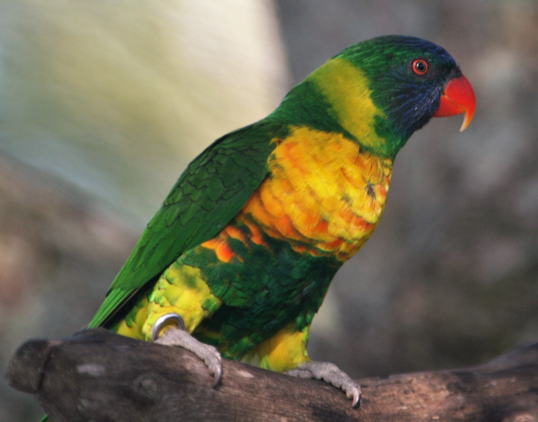 Marigold Lorikeet at Lion Country Safari, Florida, USA.